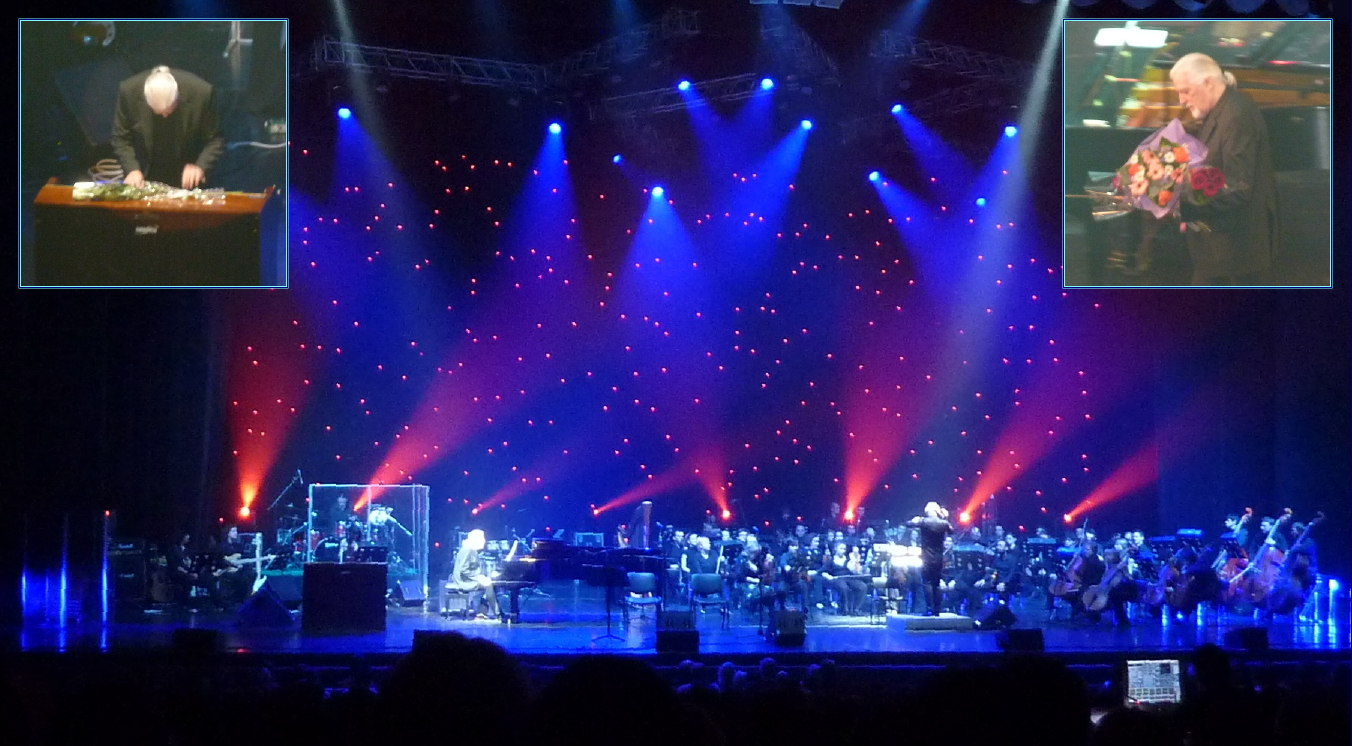 Jon Lord in Saint-Petersburg / Russia at 17.04.2011 in the Great Concerthall